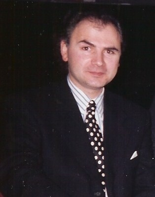 Photograph taken during the New Year's Eve celebration.